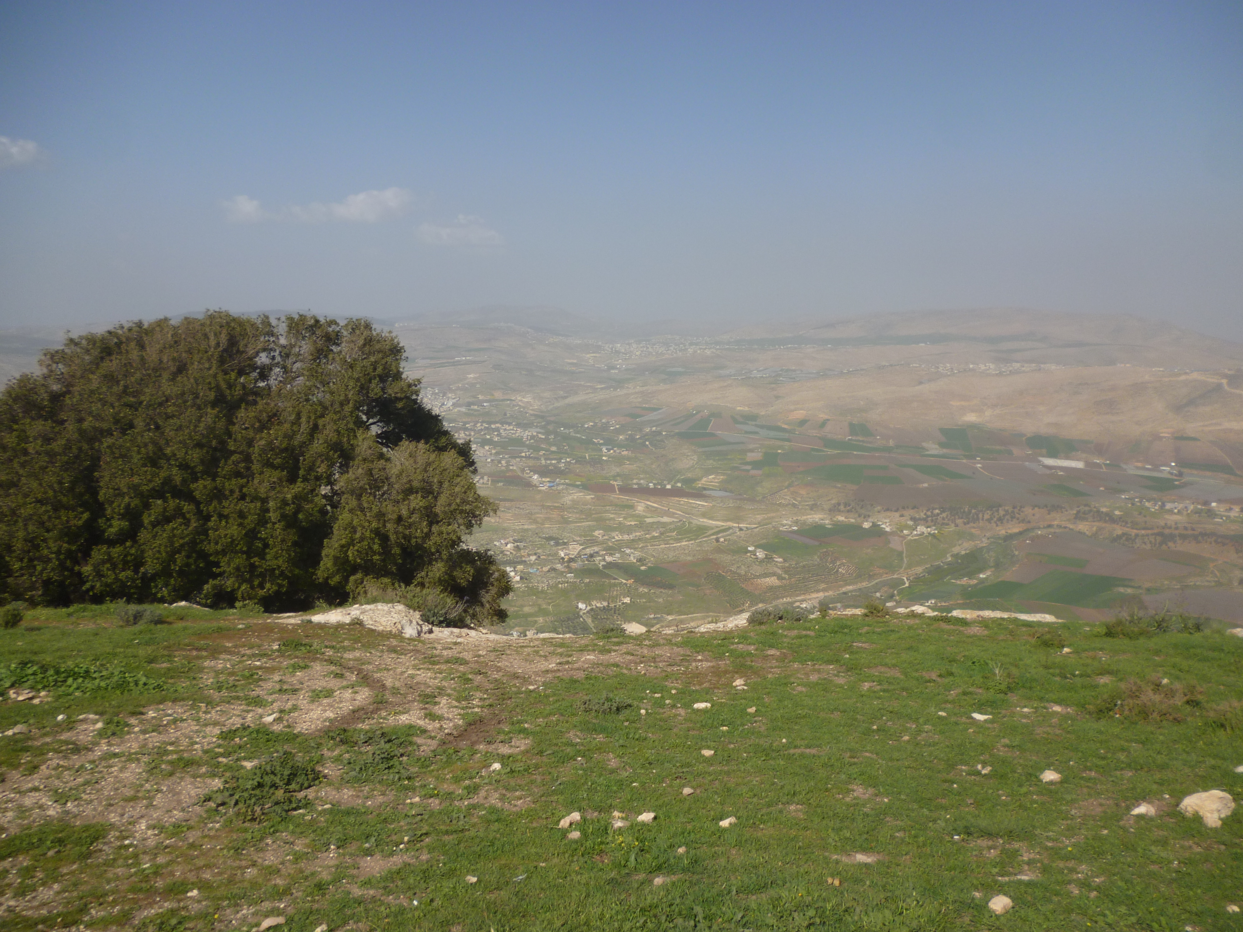 on the right, the vally is the valley of Tirza. Above it, on the closer mountain, are some of the houses of Tammun. On the left side, on the right of the tree, are the houses of Ras al-Far'a. behind Ras al-Far'a is the village of Tubas. The picture was taken from mount Kabir.